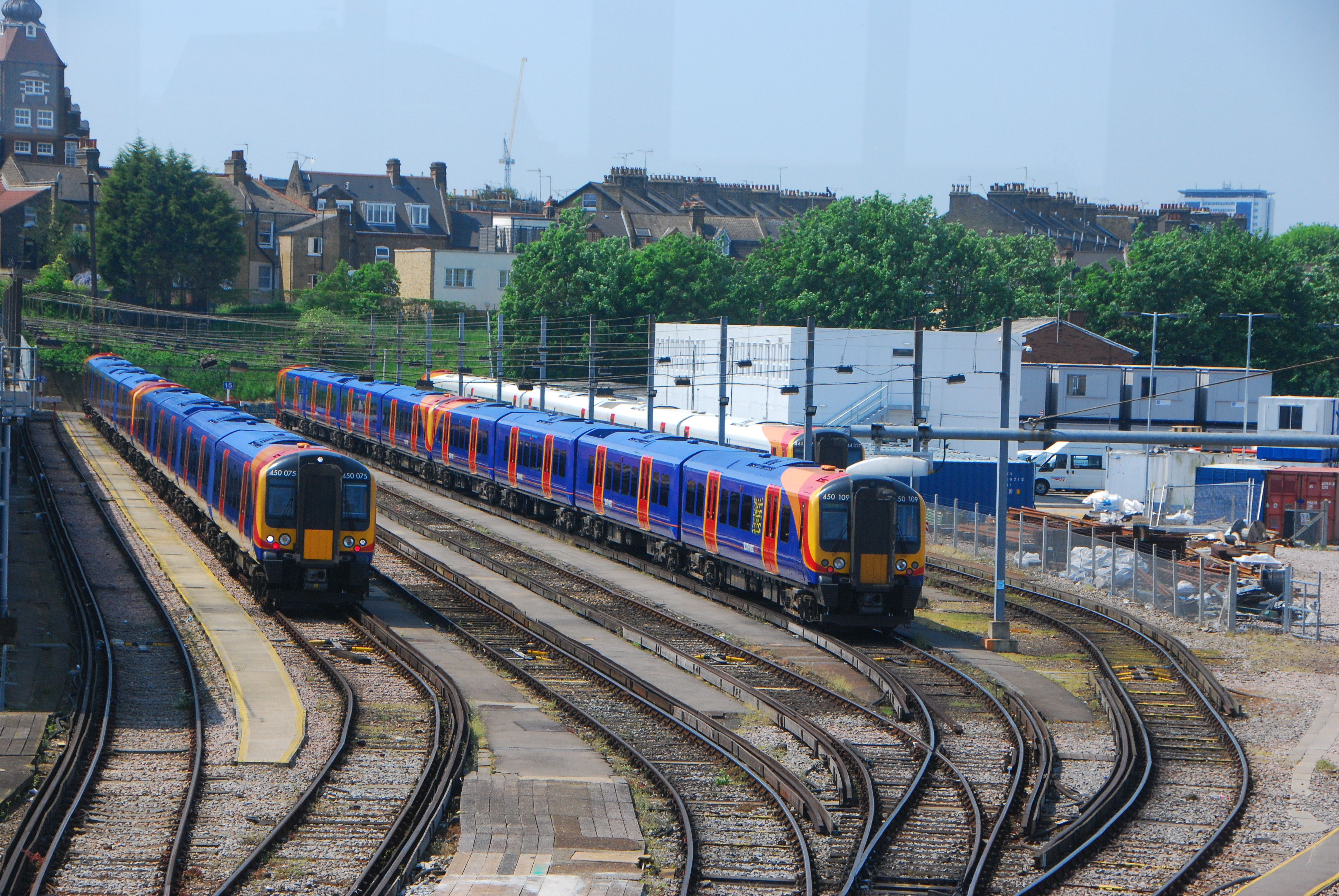 Class 450 EMU's in the sidings at Clapham Junction